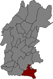 Location of Talavera in Segarra